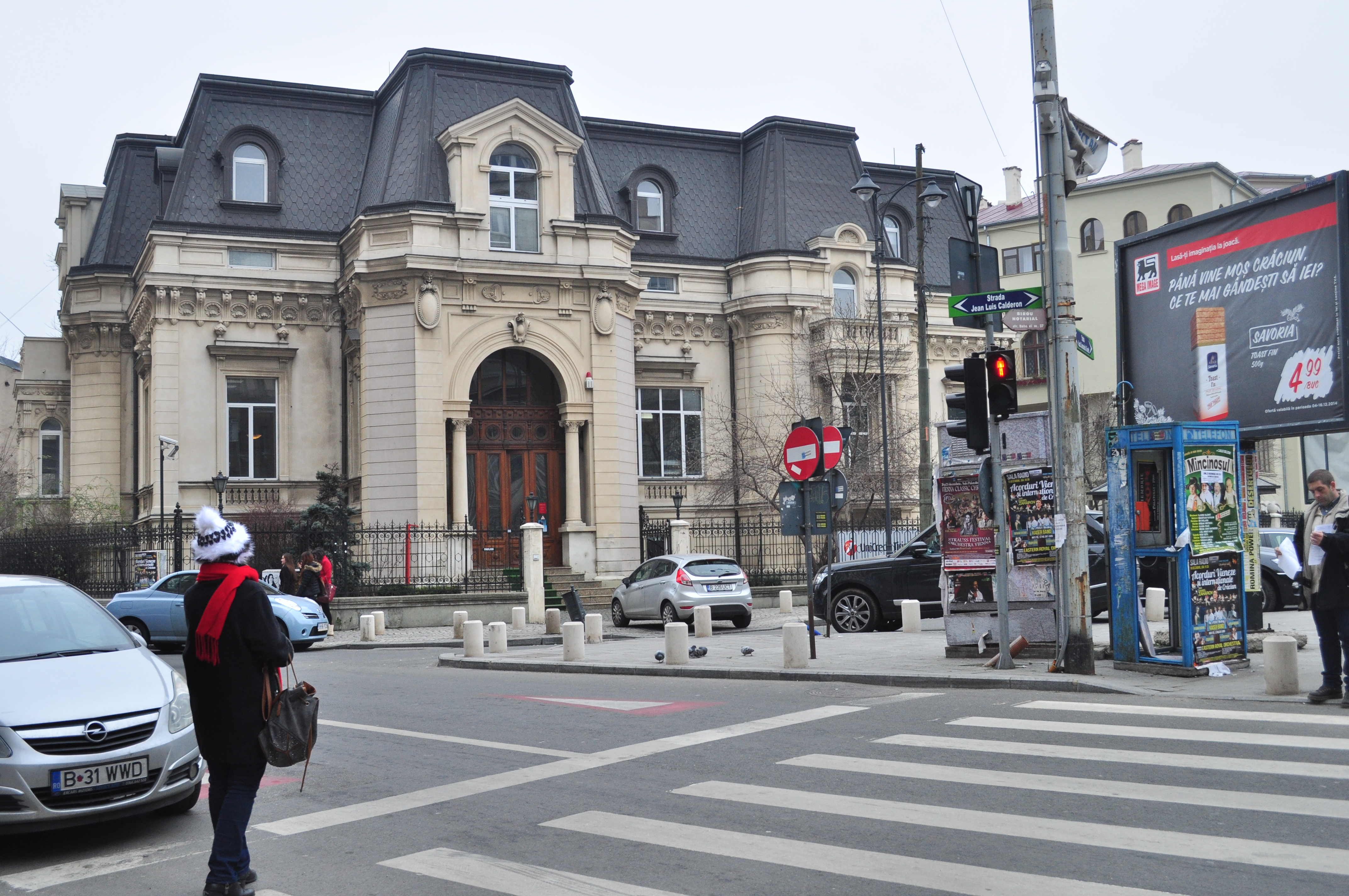 Vasiliu Bolnavu House (now a UniCredit Bank branch), on 36 C.A. Rosetti Street, near the Jean Louis Calderon Street, Bucharest, Romania.